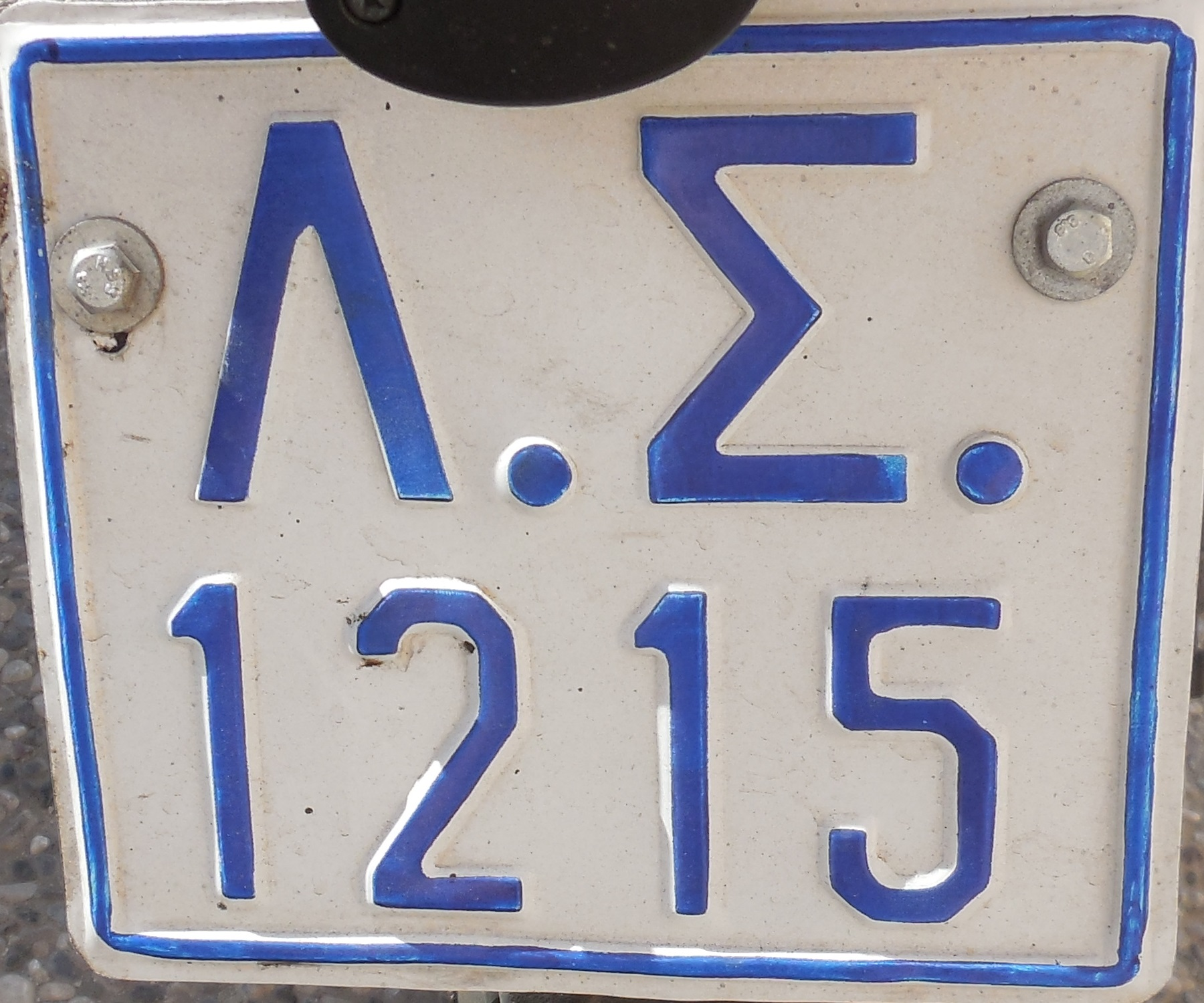 Harbour Police and Coast Guard plate of Greece